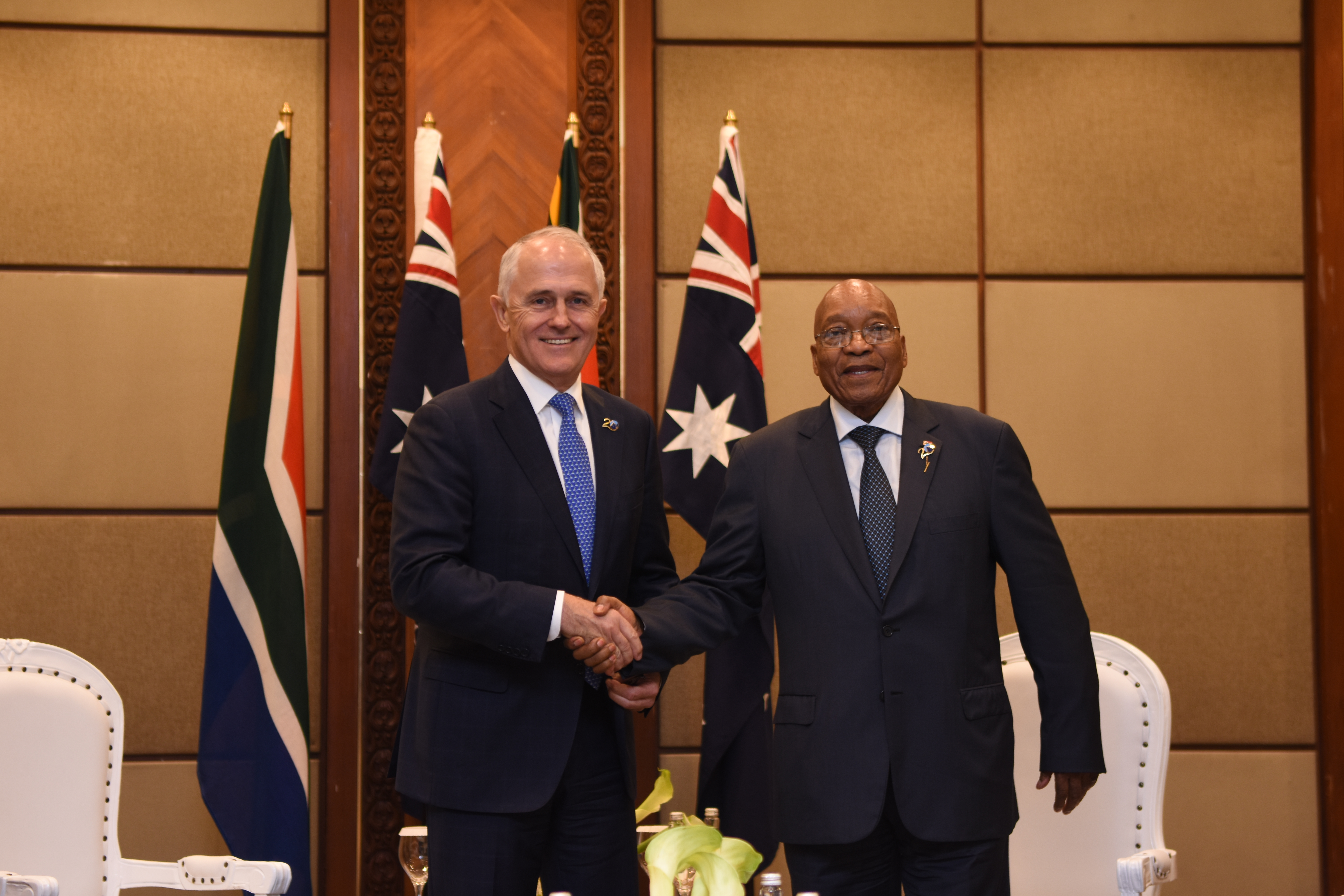 Malcolm Turnbull (Prime Minister of Australia) and Jacob Zuma (President of South Africa) in Jakarta, Indonesia.